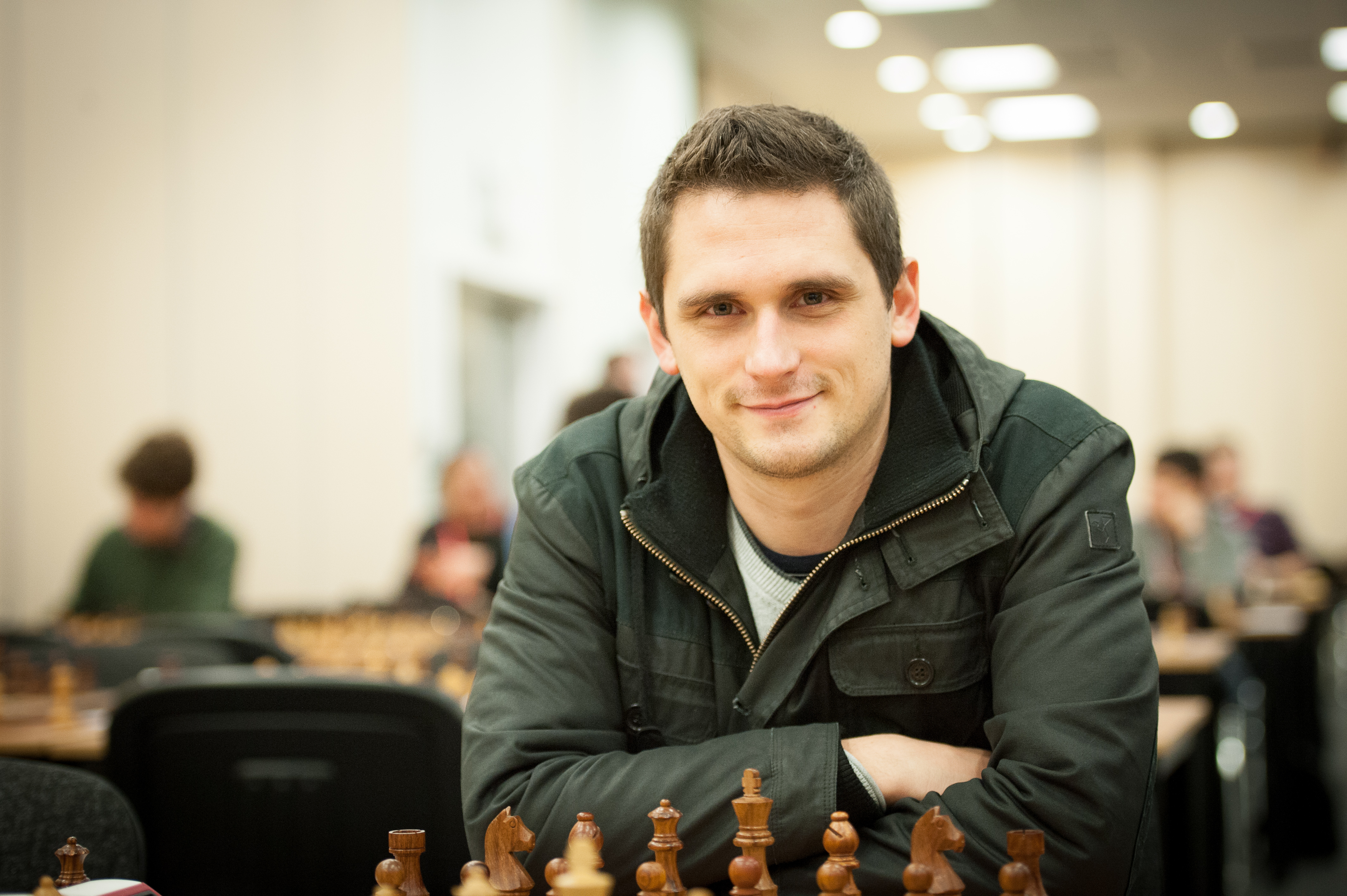 GM Matthieu Cornette